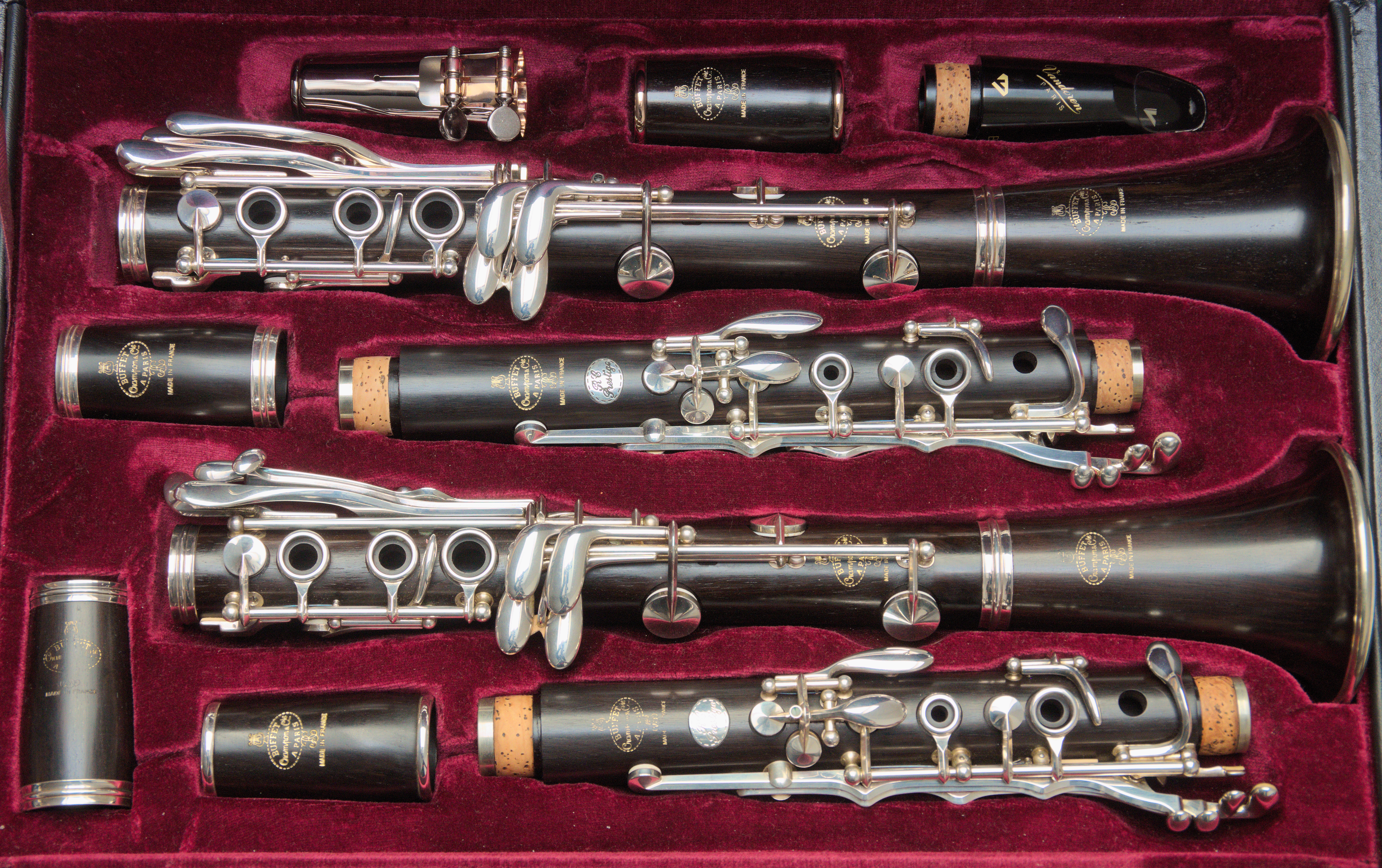 Buffet Crampon clarinets RC Prestige in B-flat (bottom) and A (top) in double case. (Mouthpiece Vandoren BD5. Ligature and cap Buffet Crampon ICON. Additional ICON barrels.)